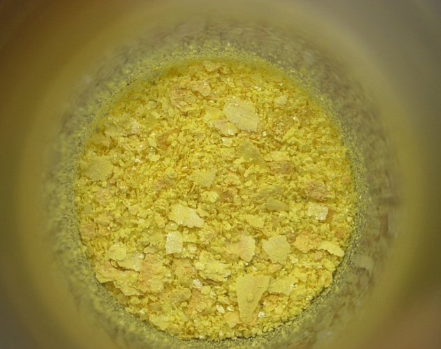 Iodoform crystals